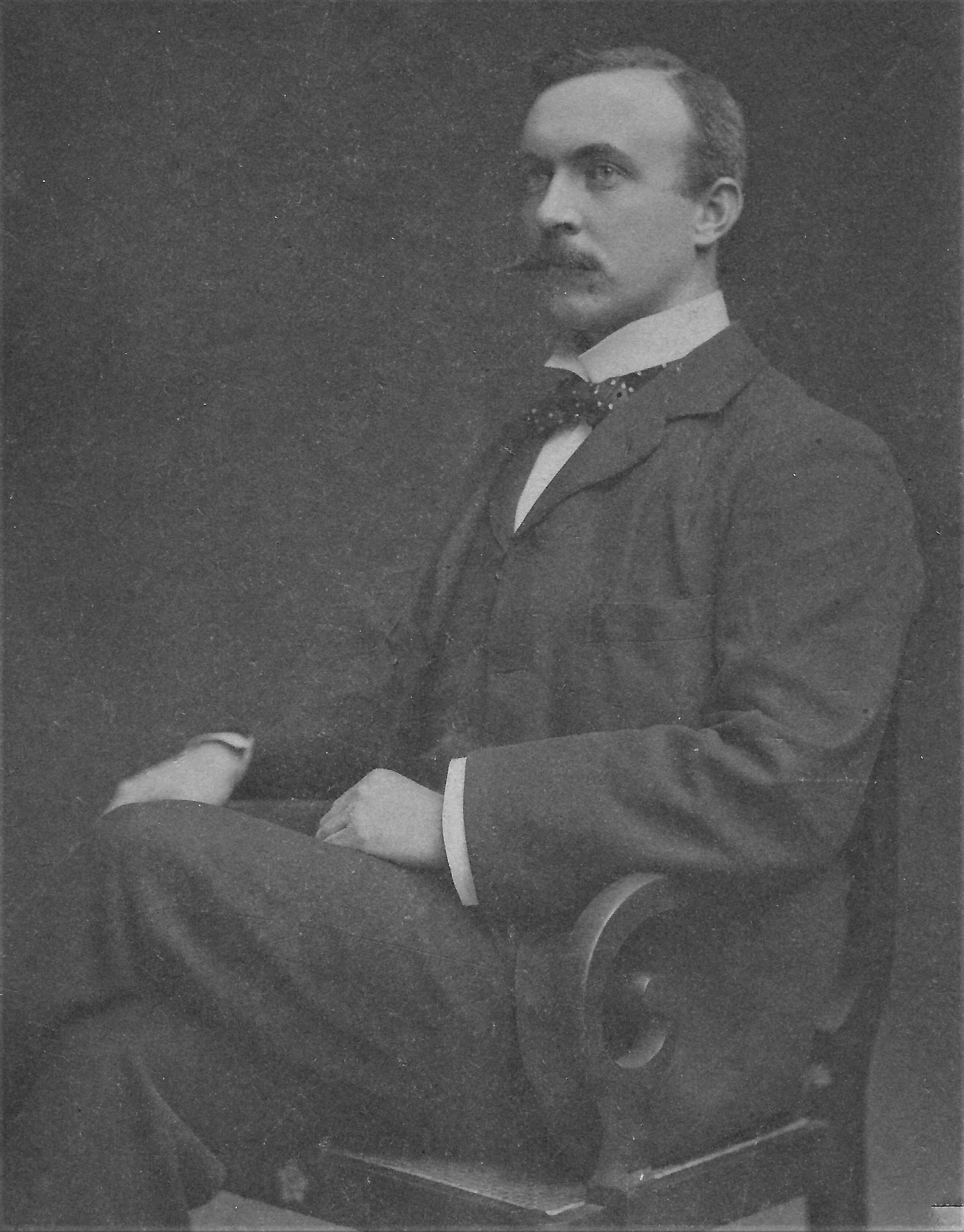 Portrait of Scottish architect William Fraser, A.R.I.B.A. taken circa 1898.